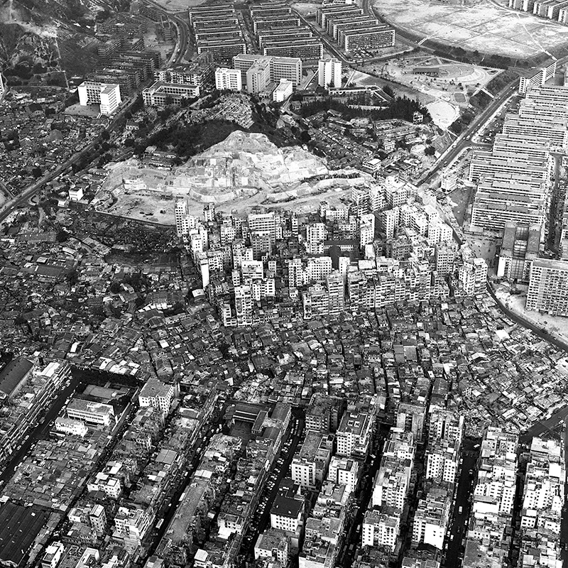 An aerial view of the Kowloon Walled City and the neighboring Sai Tau Tsuen village in 1973.